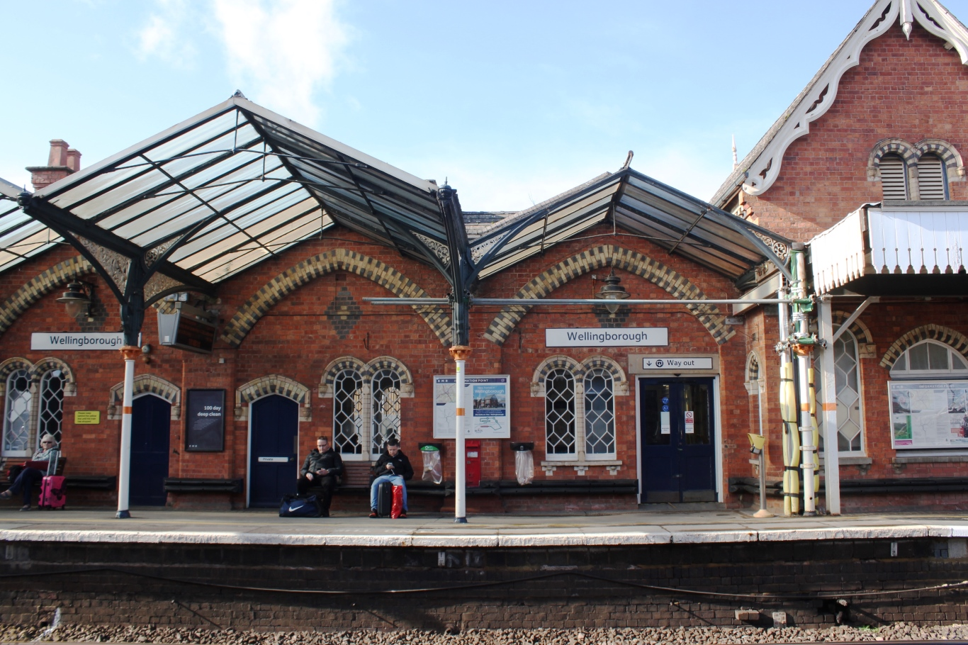 When Charles Driver built the railway station at Wellingborough for the Midland Railway he gave it wonderfully detailed windows, polychromatic brickwork and a spacious ridge-and-furrow glazed canopy. It merits two stars in Simon Jenkins' Britain's 100 Best Railway Stations.